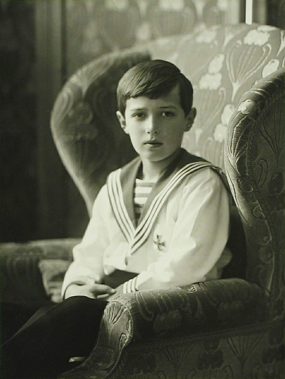 Alexei Nikolaevich, Tsarevich of Russia